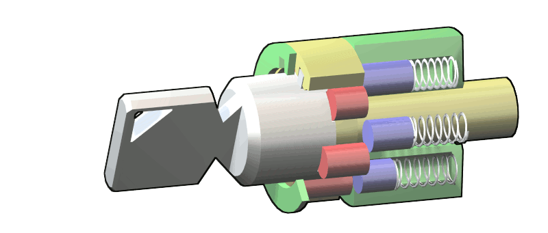 Illustration of a Tubular pin tumbler lock made by Wapcaplet in Blender and touched up in the GIMP. Category:Images created with Blender